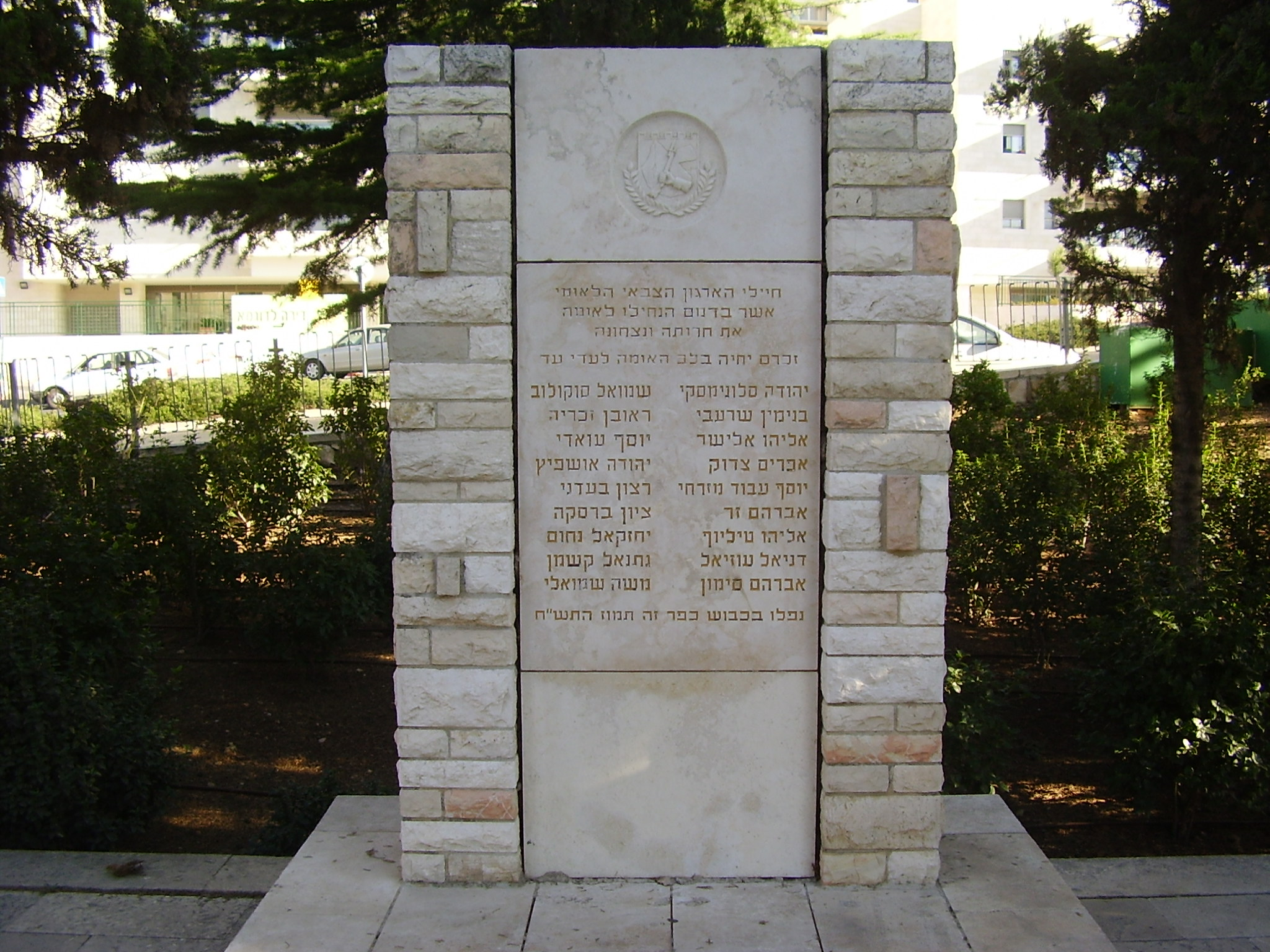 etzel independence war memorial in Jerusalem to the 18 soldiers who died in the battle of Malha